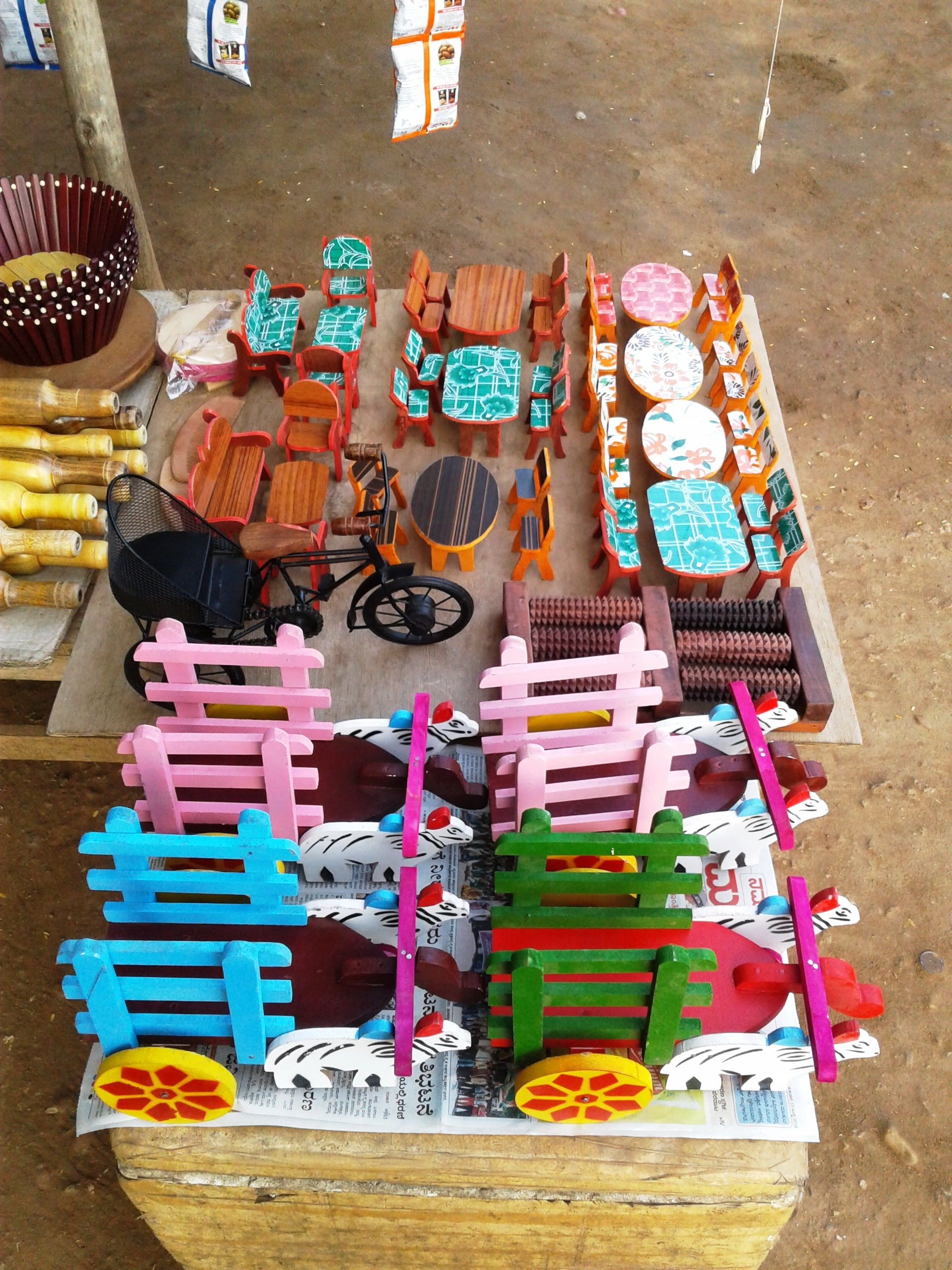 Srirangapatna, Mandya district, Karnataka state, India.